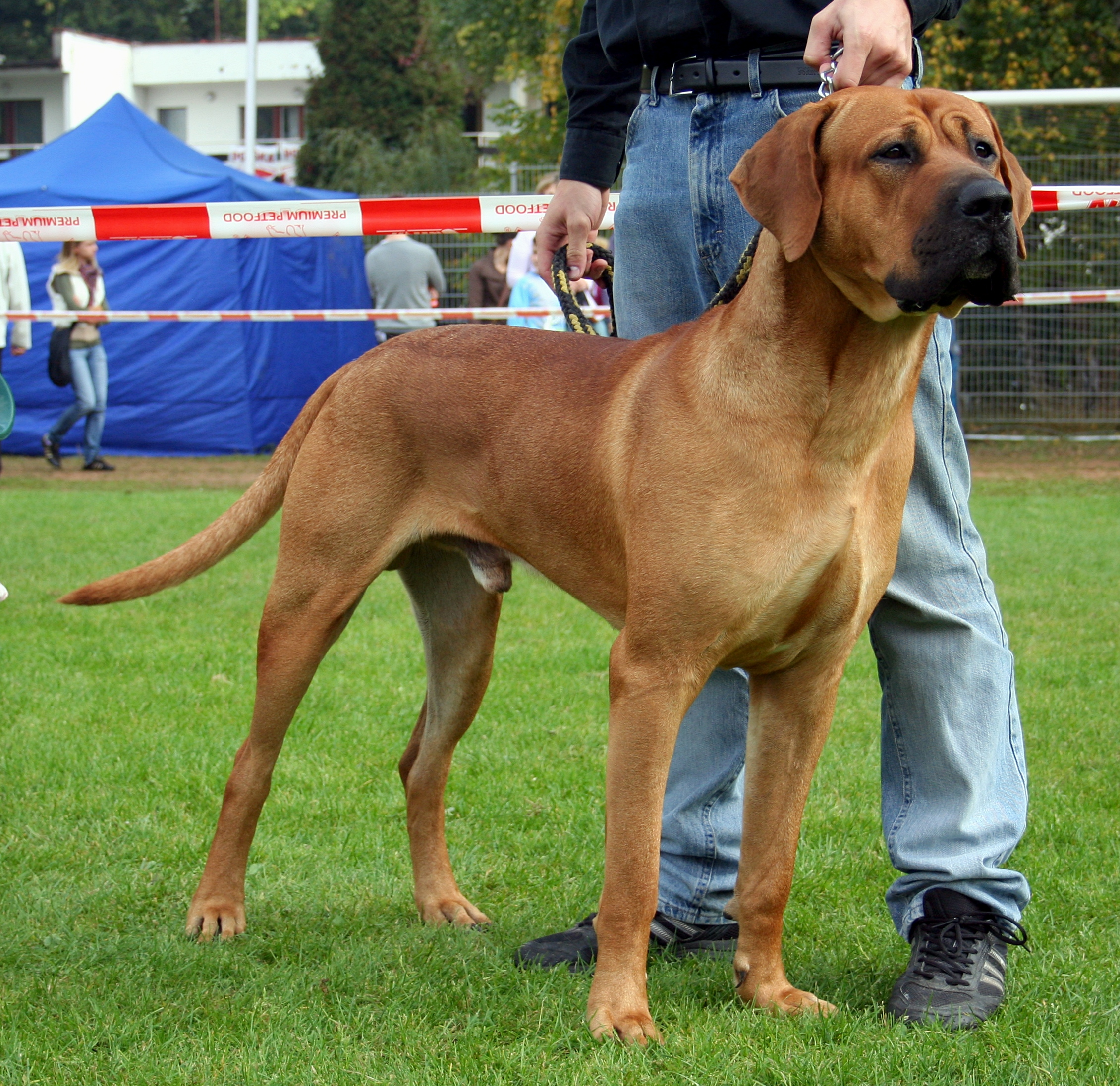 Tosa during Dogs Show in Rybnik.